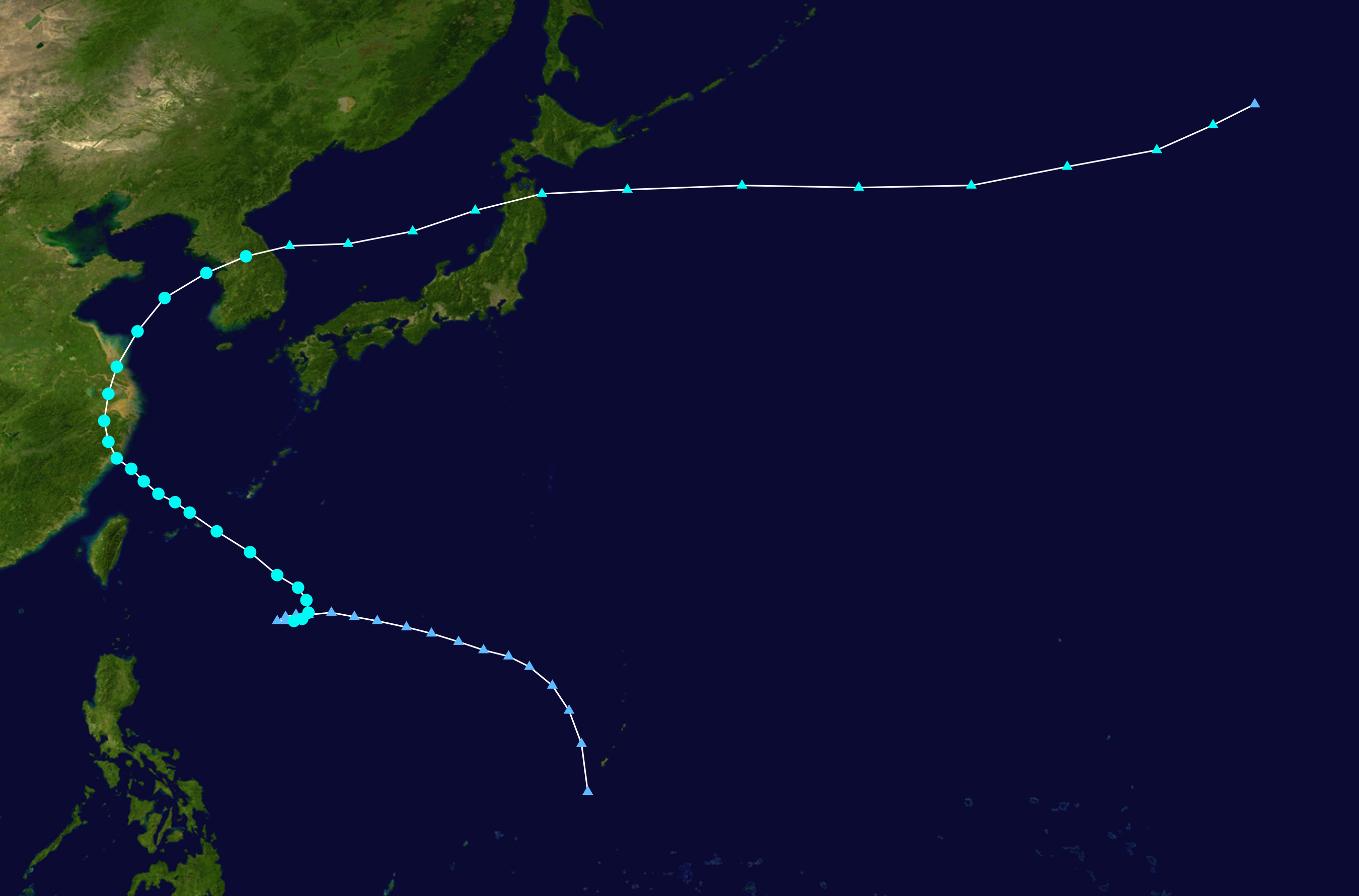 Tropical Storm Janis 1995 track. Uses the color scheme from the Saffir-Simpson Hurricane Scale.